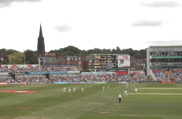 Headingley Cricket Ground Headingley Cricket Ground during the Pakistan/England test match. St Michael's and All Angels church in the distance.